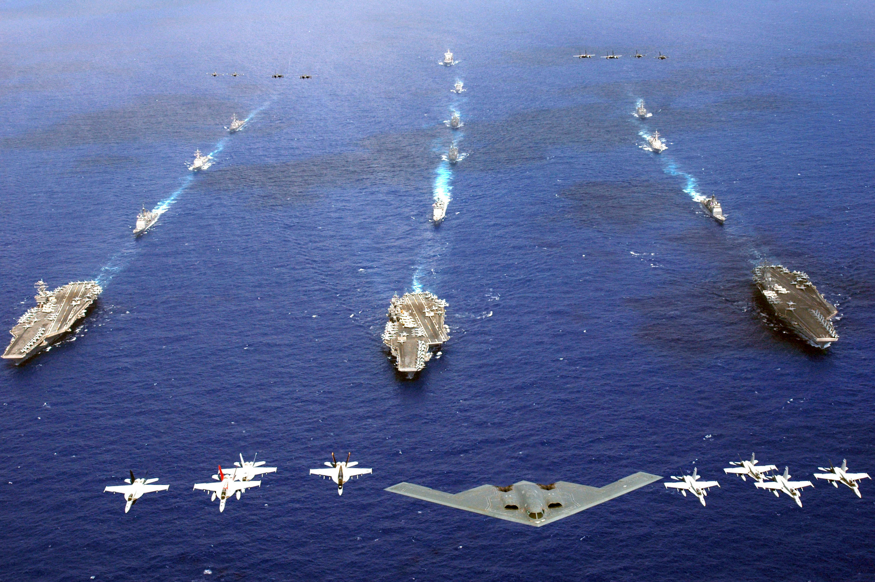 A B-2 Spirit and 16 other aircraft from the Air Force, Navy and Marine Corps fly over the USS Kitty Hawk, USS Ronald Reagan, and USS Abraham Lincoln carrier strike groups in the western Pacific Ocean on Sunday, June 18, to kick off Exercise Valiant Shield 2006. The joint exercise consists of 28 naval vessels, more than 300 aircraft and approximately 20,000 servicemembers.